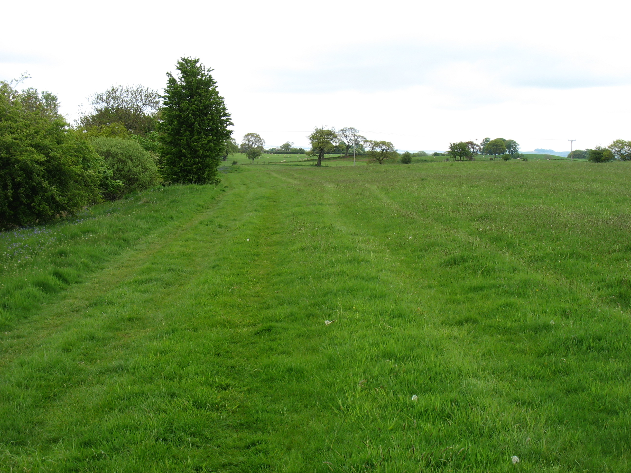 The Hadrian's Wall Path approaching Newtown